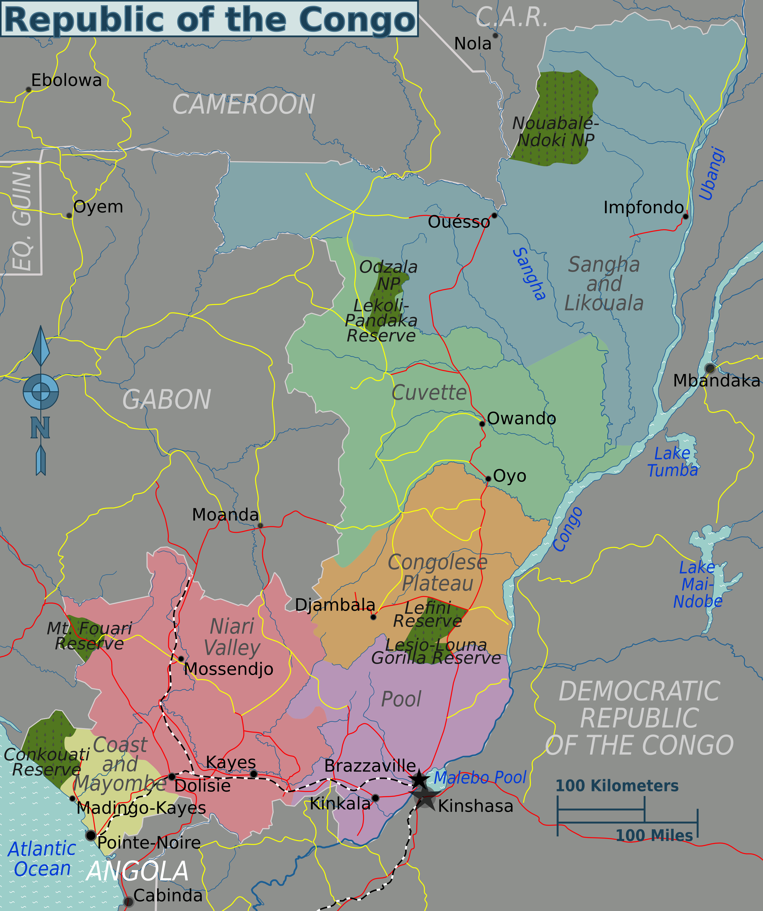 Republic of the Congo regions map for use on Wikivoyage, English version